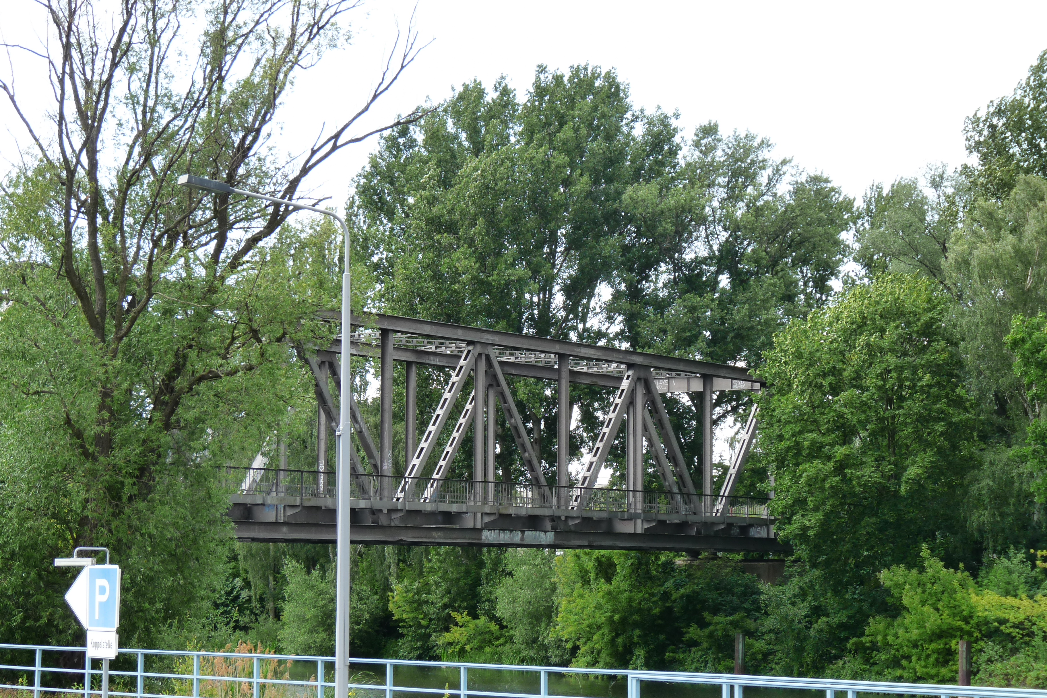 Former railroad bridge crossing river Spree in Berlin next the river log Schleuse Charlottenburg